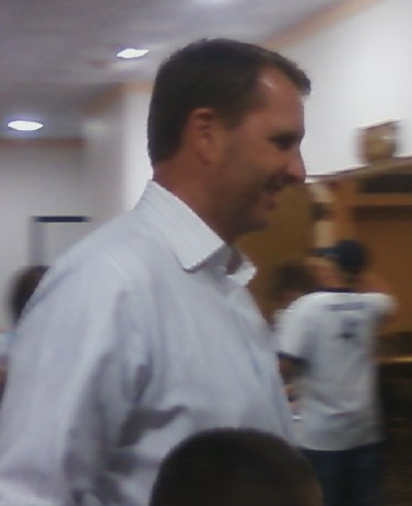 Picture of Ty Detmer 6-13-2009 in Grants, NM